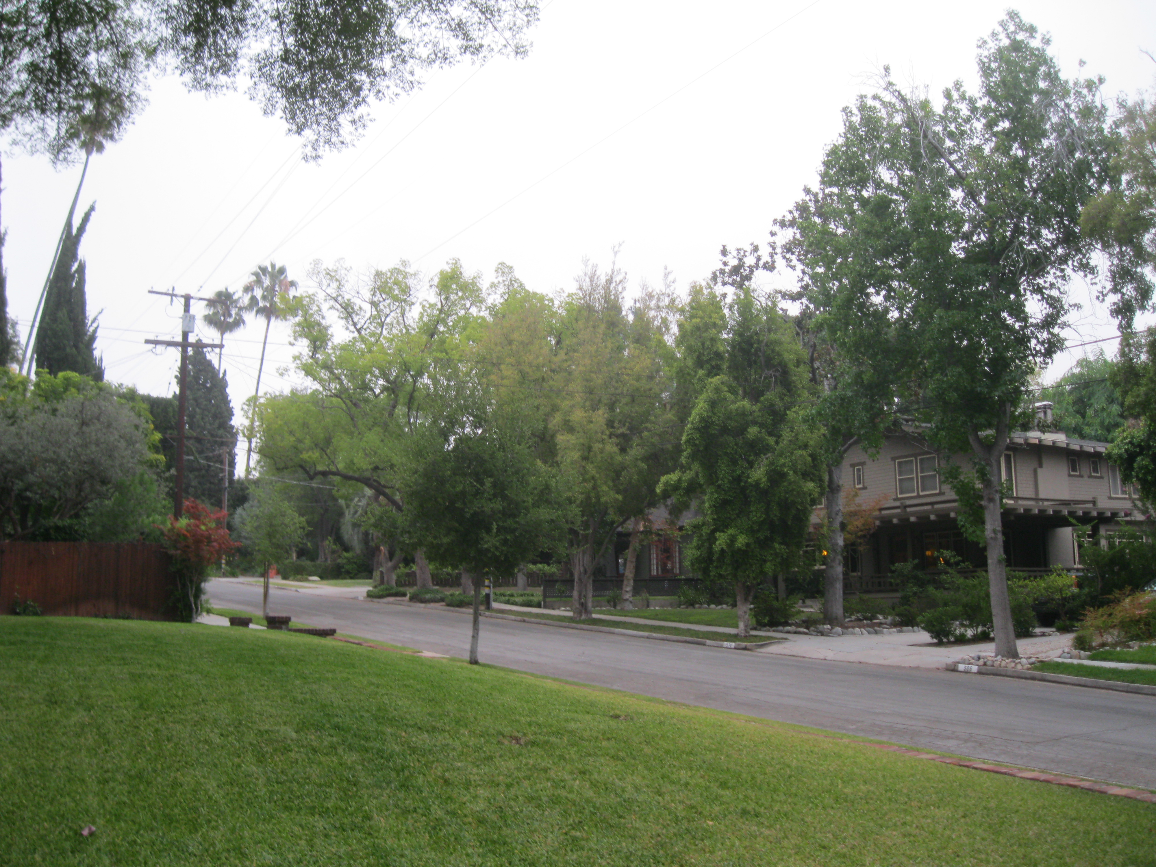 Lower Arroyo Seco Historic District in Pasadena, CA, listed on the National Register of Historic Places.